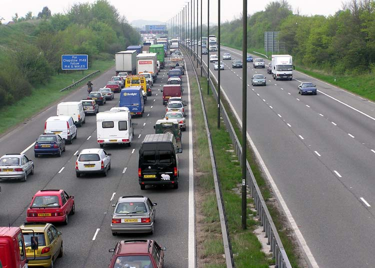 The M4 motorway runs from Swansea (South Wales) to London, over the Second Severn Crossing (a cable-supported bridge over the River Severn). The vehicles on the three left hand carriageways are stationary due to an accident ahead. A motorcyclist is riding down the hard shoulder to avoid the queue (illegally). This view is looking west from between Junctions 19 and 20.